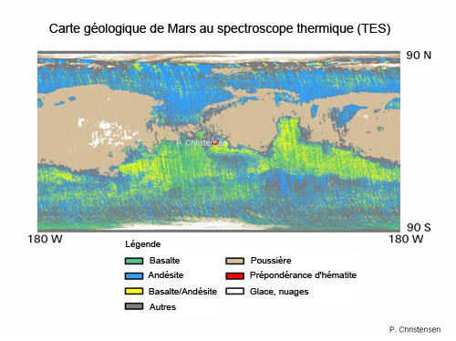 Geologic map of Mars showing hematite-rich areas in red, based on spectroscopic measurements taken by the Mars Global Surveyor Thermal Emission Spectrometer. The red area in the center of the map, at the landing site of the rover Opportunity, shows a high concentration of hematite.